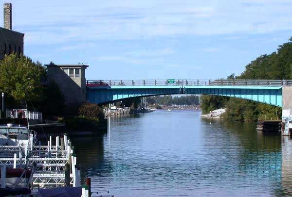 Waterfront of downtown Manistee, Michigan (taken Sept. 29, 2004) © 2004 Matthew Trump